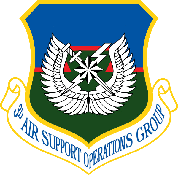 United States Air Force 3d Air Support Operations Group emblem. Made with Photoshop.